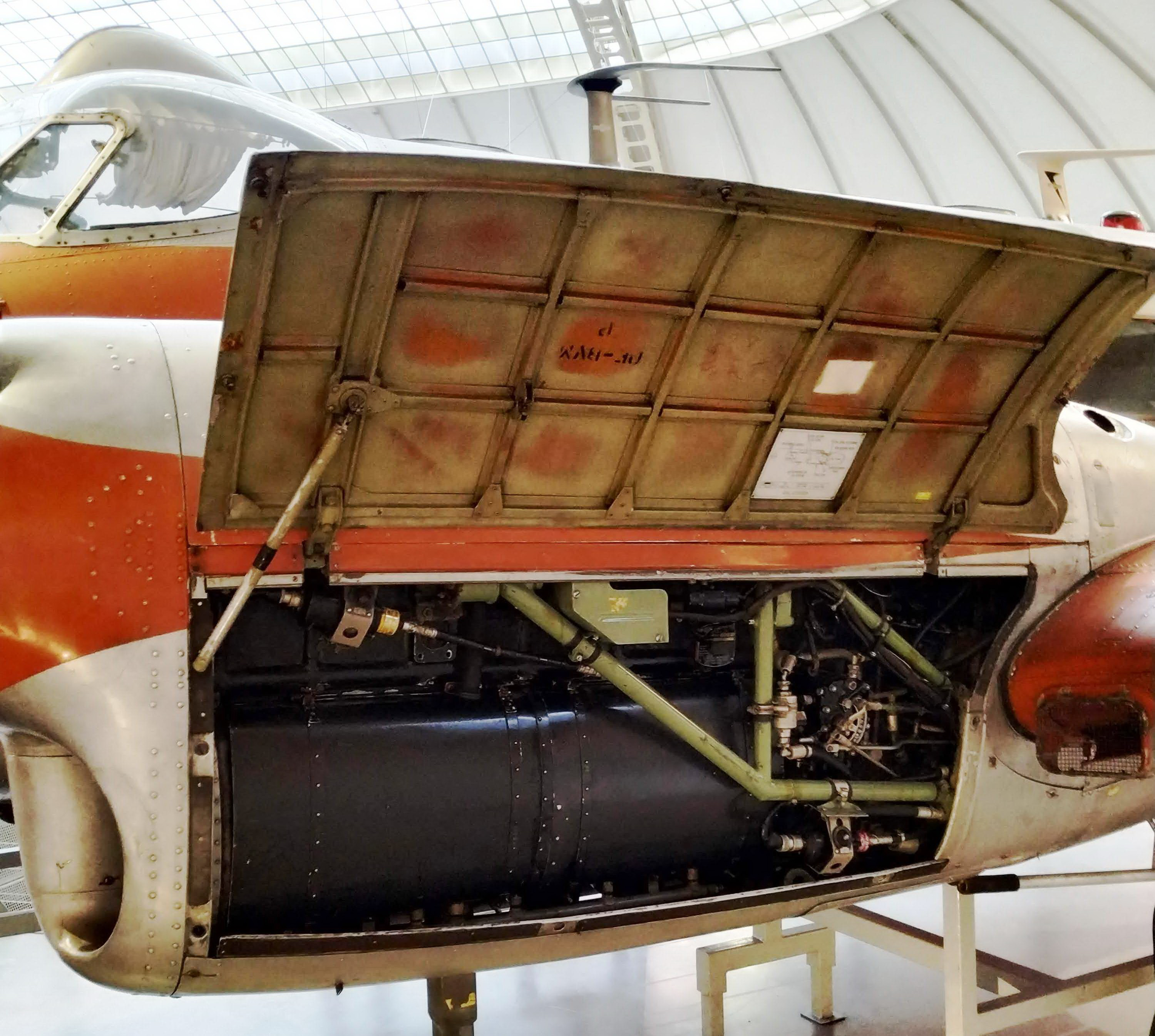 The engine of the De Havilland DH 104 Dove aircraft at the Vienna Technical Museum